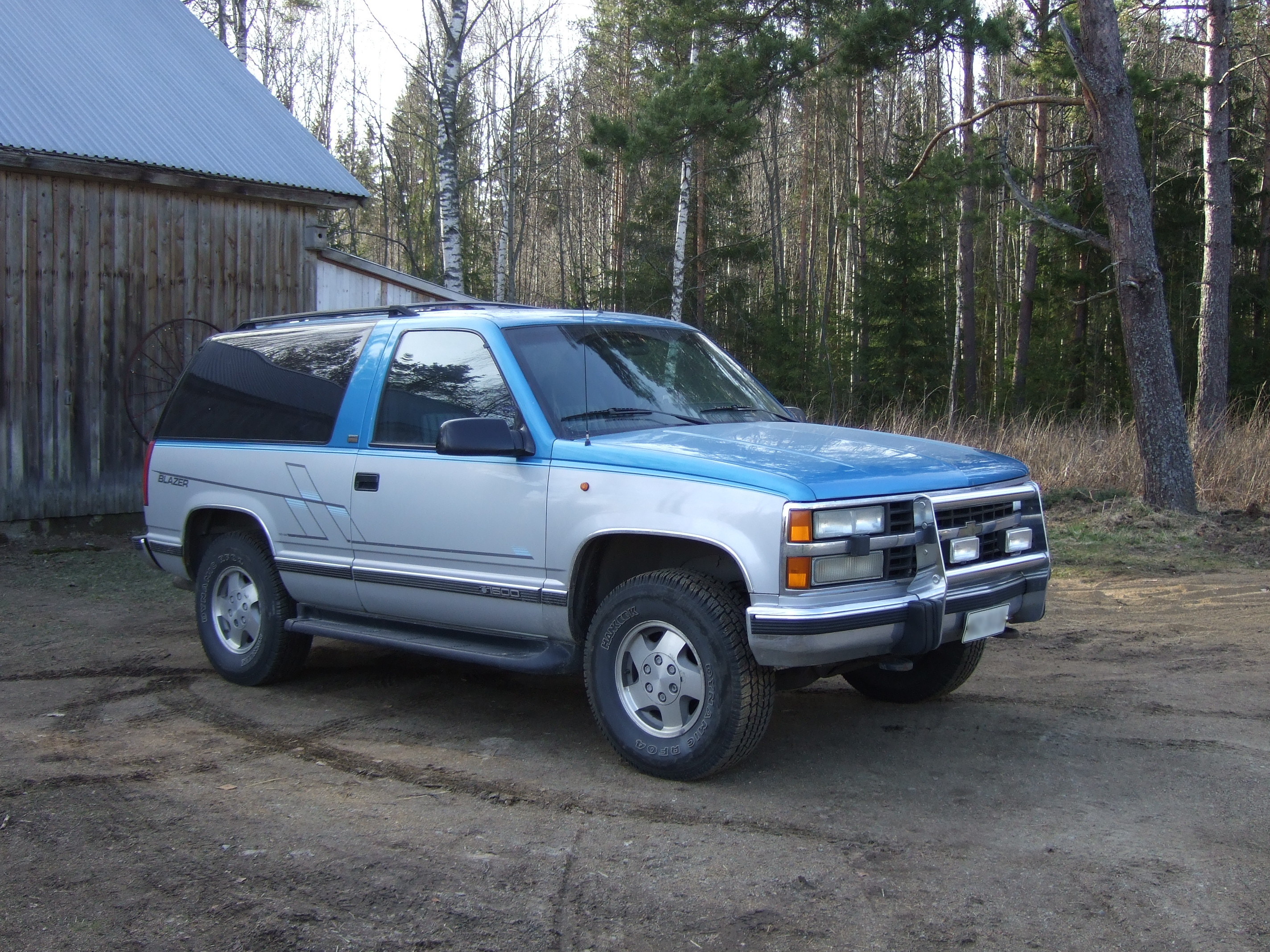 3rd generation 1992 Chevrolet K5 Blazer Silverado 5.7 TPI